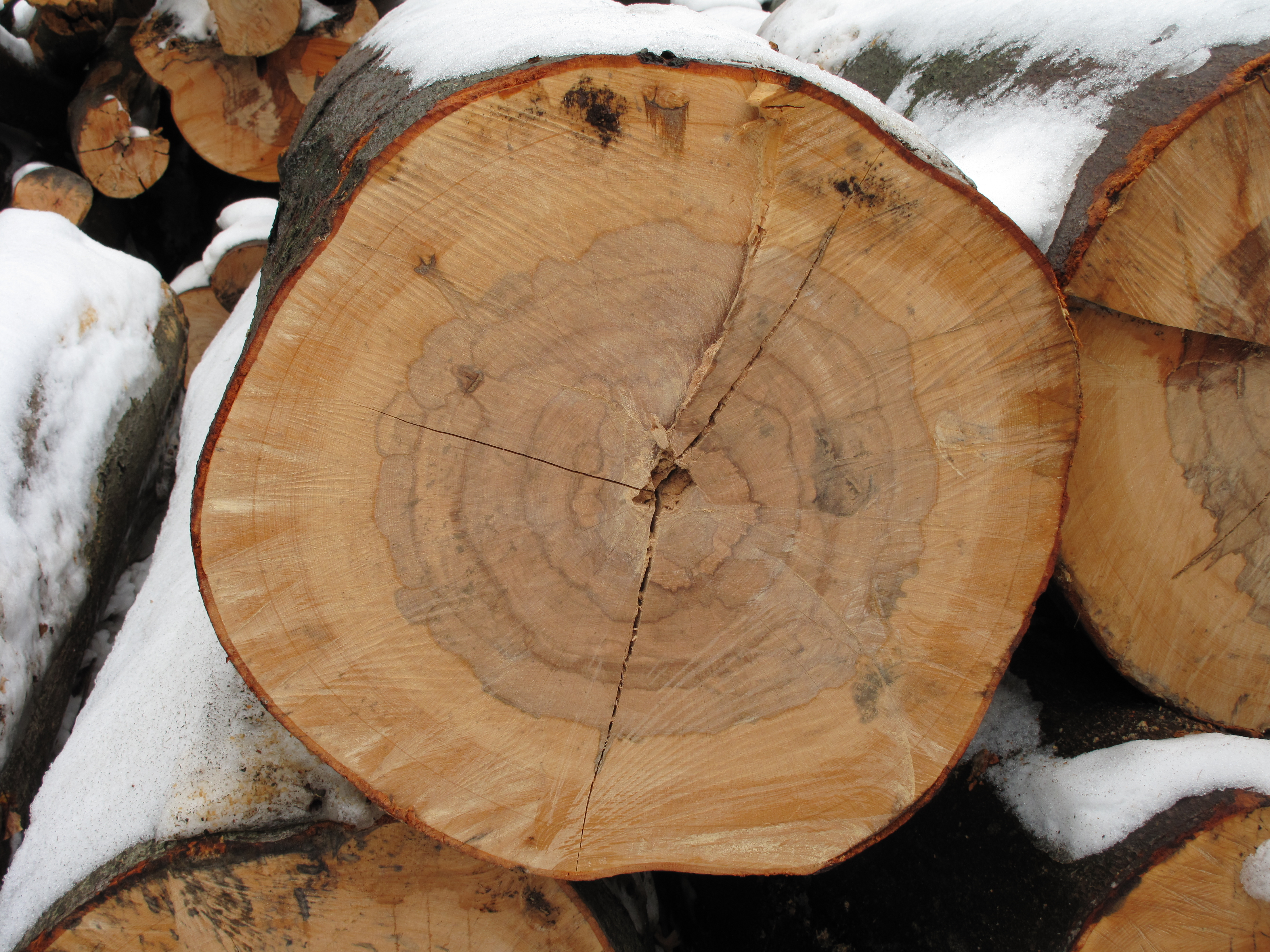 Beech growth rings in Hornopožárský Forest, Czech Republic.